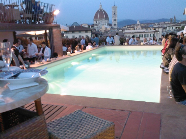 Cityscapes of Florence